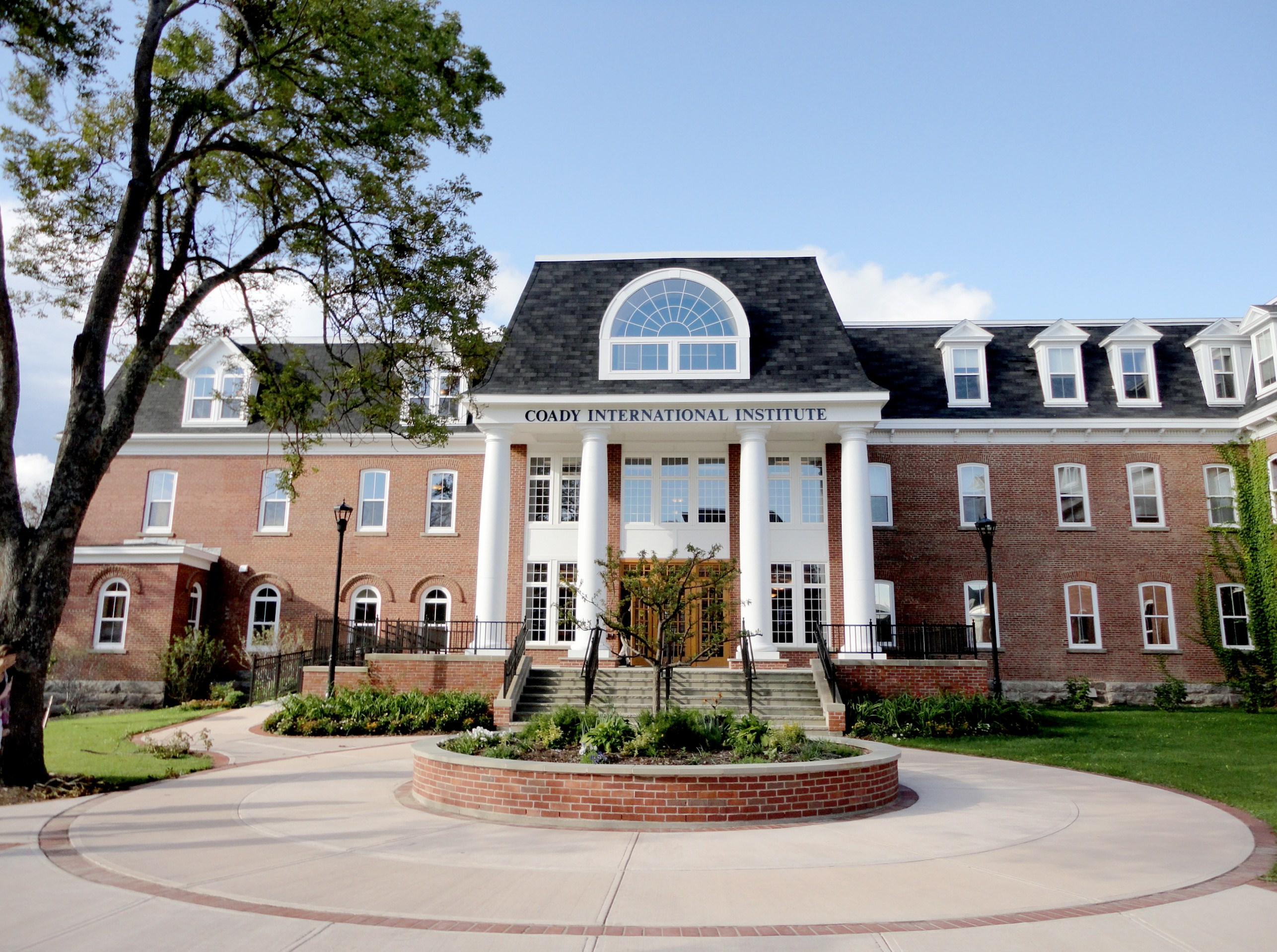 Coady International Institute headquarters at StFX University in Antigonish, Nova Scotia, Canada.